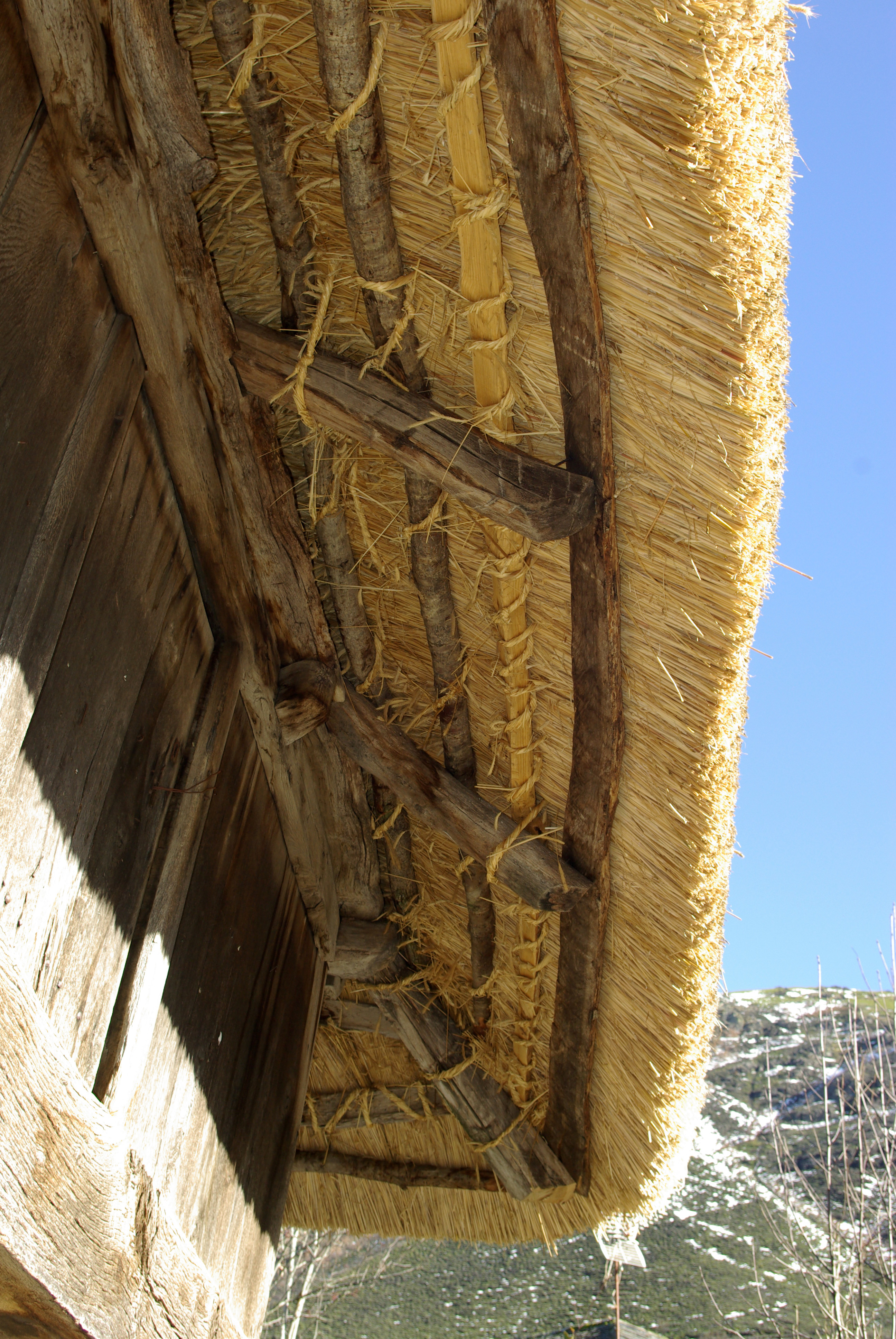 Detail of a thatched straw hórreo in Balouta, Candín (León, Spain)